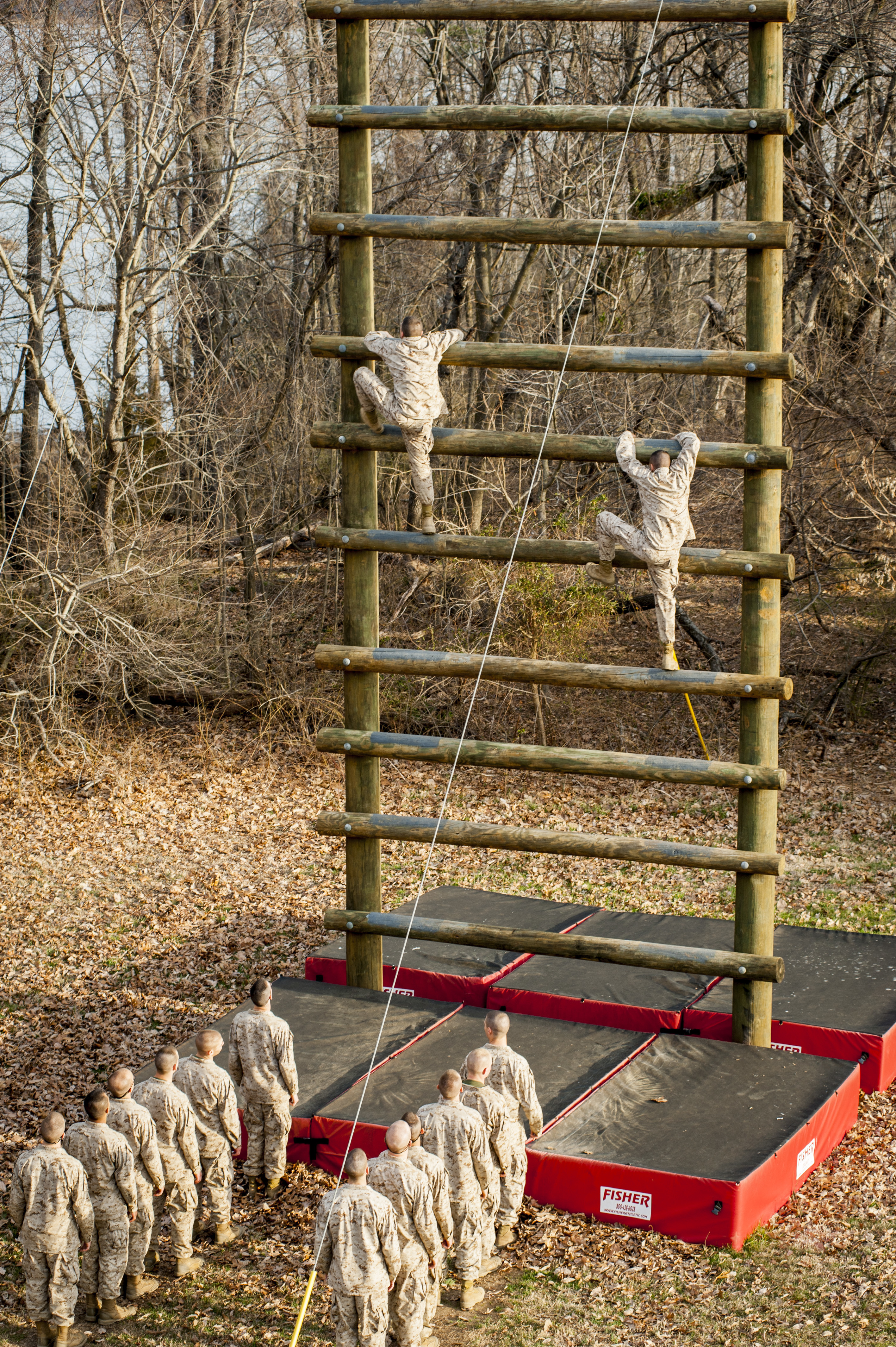 Candidates assigned to Delta Company, Officer Candidates Class-221, climb 'The Tower of Terror' at the Confidence Course, Brown Field, Marine Corps Base Quantico, Va., on March 10, 2016. The mission of Officer Candidates School (OCS) is to "educate and train officer candidates in Marine Corps knowledge and skills within a controlled, challenging, and chaotic environment in order to evaluate and screen individuals for the leadership, moral, mental, and physical qualities required for commissioning as a Marine Corps officer." (U.S. Marine Corps Photo by Cpl. Patrick H. Owens/Released) Unit: MCB Quantico Combat Camera DVIDS Tags: VA; Officers; USMC; Virginia; Confidence Course; OCS; Combat Camera; COMCAM; Quantico; SOC; TECOM; Officer Candidates School; MCBQ; USMCCOMCAM; Tarzan Course; MCBQ COMCAM; Brown Field; MCB COMCAM; 0911; Drill Instrcutors; Sergeant Instructors